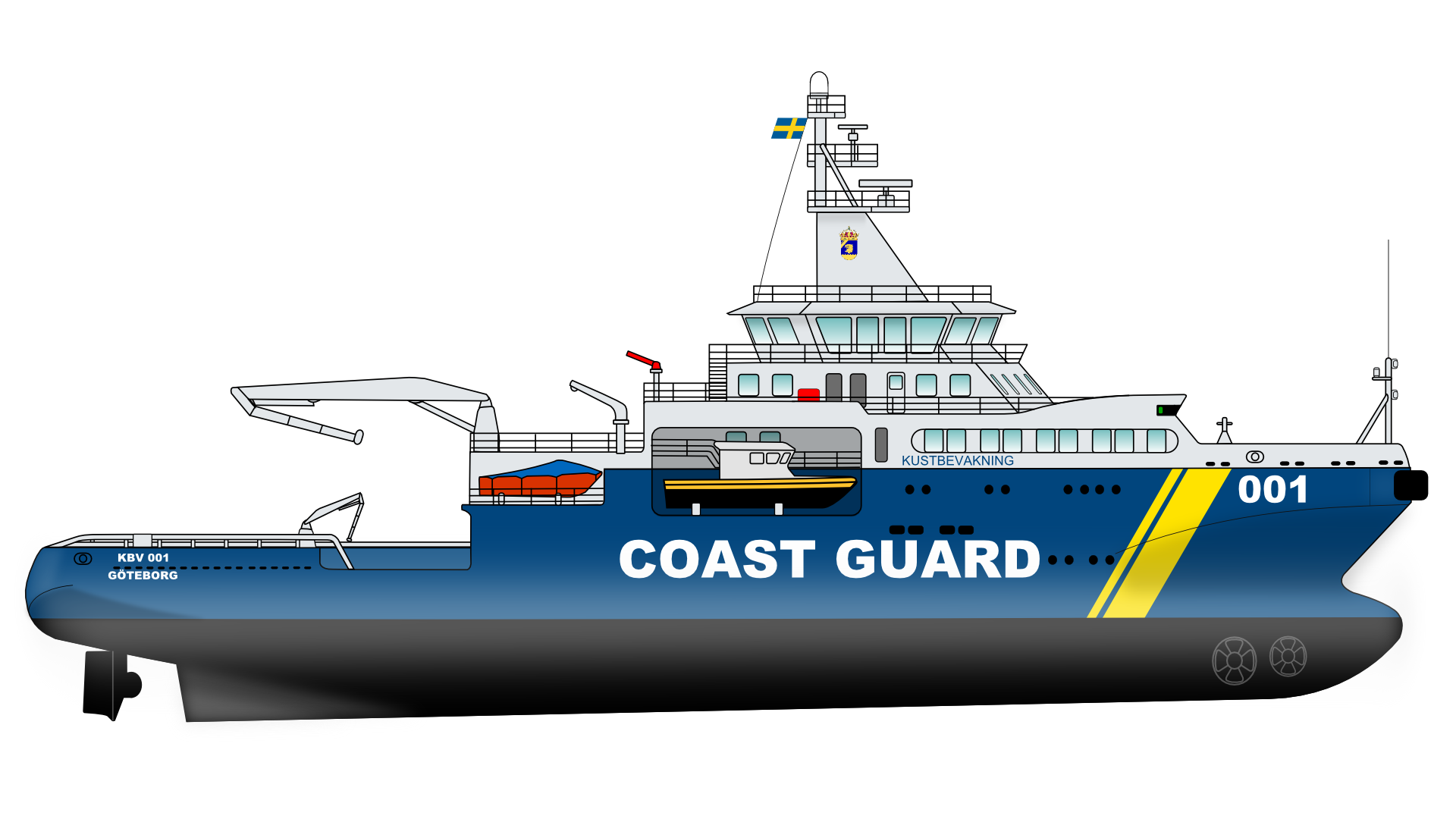 Swedish coast guard vessel KBV 001 Poseidon